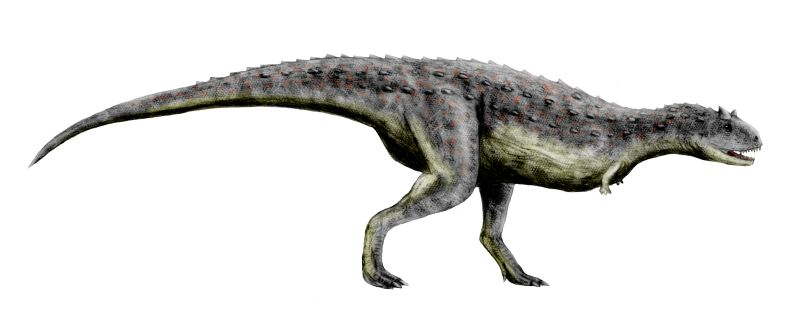 Carnotaurus sastrei, an abelisaur from the Late Cretaceous of Argentina, pencil drawing, digital coloring